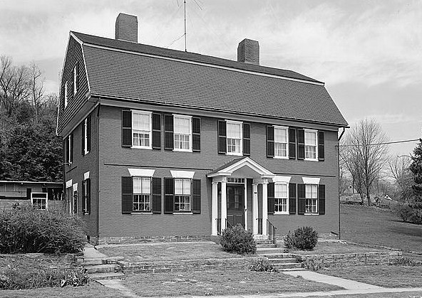 Gardner Carpenter House, 55 East Town Street, Norwichtown (New London County, Connecticut) cropped This file comes from the Historic American Buildings Survey (HABS), Historic American Engineering Record (HAER) or Historic American Landscapes Survey (HALS). These are programs of the National Park Service established for the purpose of documenting historic places. Records consist of measured drawings, archival photographs, and written reports. When reusing please credit: Library of Congress, Prints & Photographs Division, CONN,6-NORT,8-1 This tag does not indicate the copyright status of the attached work. A normal copyright tag is still required. See Commons:Licensing. This work is in the public domain in the United States because it is a work prepared by an officer or employee of the United States Government as part of that person’s official duties under the terms of Title 17, Chapter 1, Section 105 of the US Code. Note: This only applies to original works of the Federal Government and not to the work of any individual U.S. state, territory, commonwealth, county, municipality, or any other subdivision. This template also does not apply to postage stamp designs published by the United States Postal Service since 1978. (See § 313.6(C)(1) of Compendium of U.S. Copyright Office Practices). It also does not apply to certain US coins; see The US Mint Terms of Use. This file has been identified as being free of known restrictions under copyright law, including all related and neighboring rights. Object location41° 32′ 52″ N, 72° 05′ 33″ W